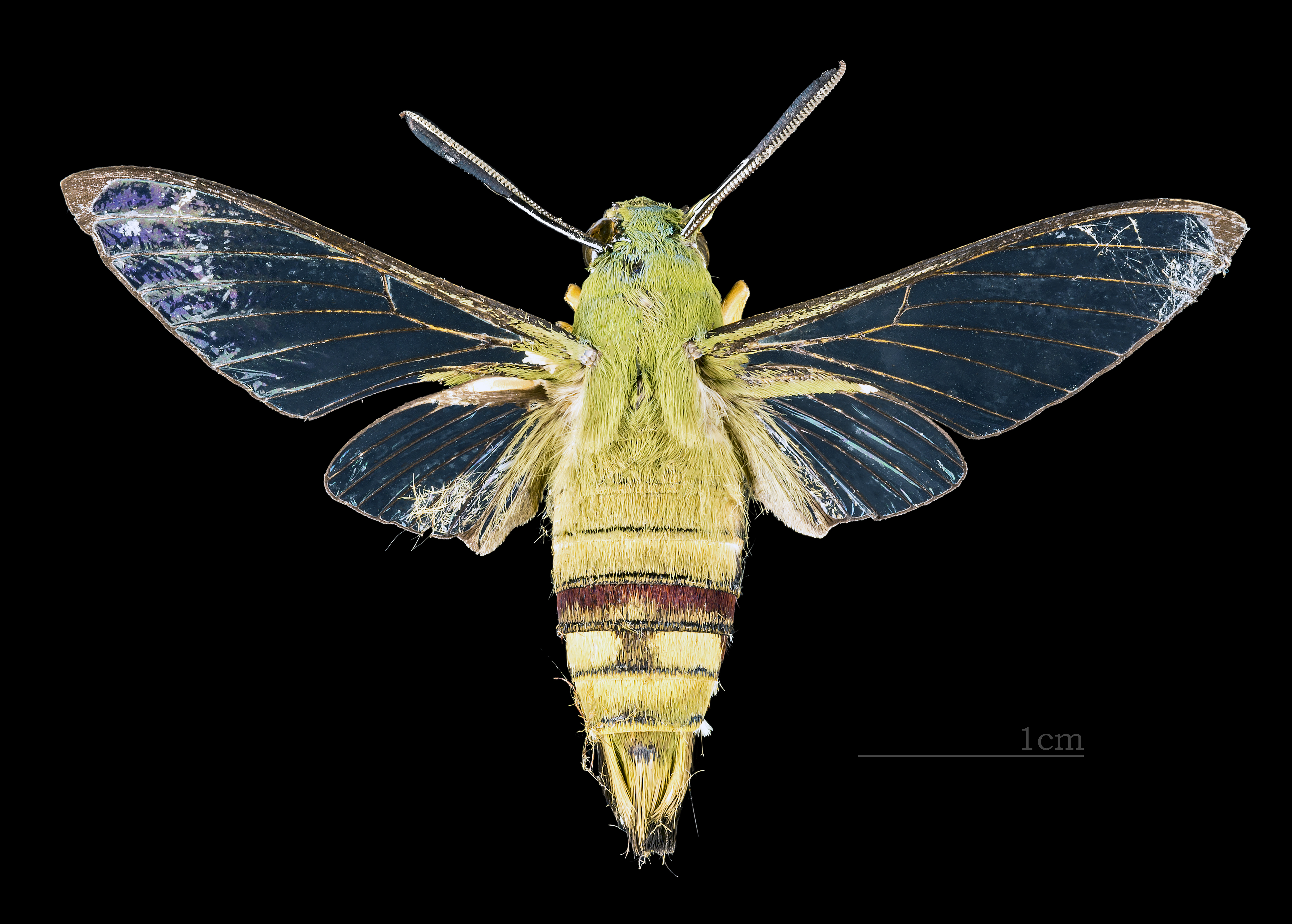 Cephonodes picus - Dorsal side